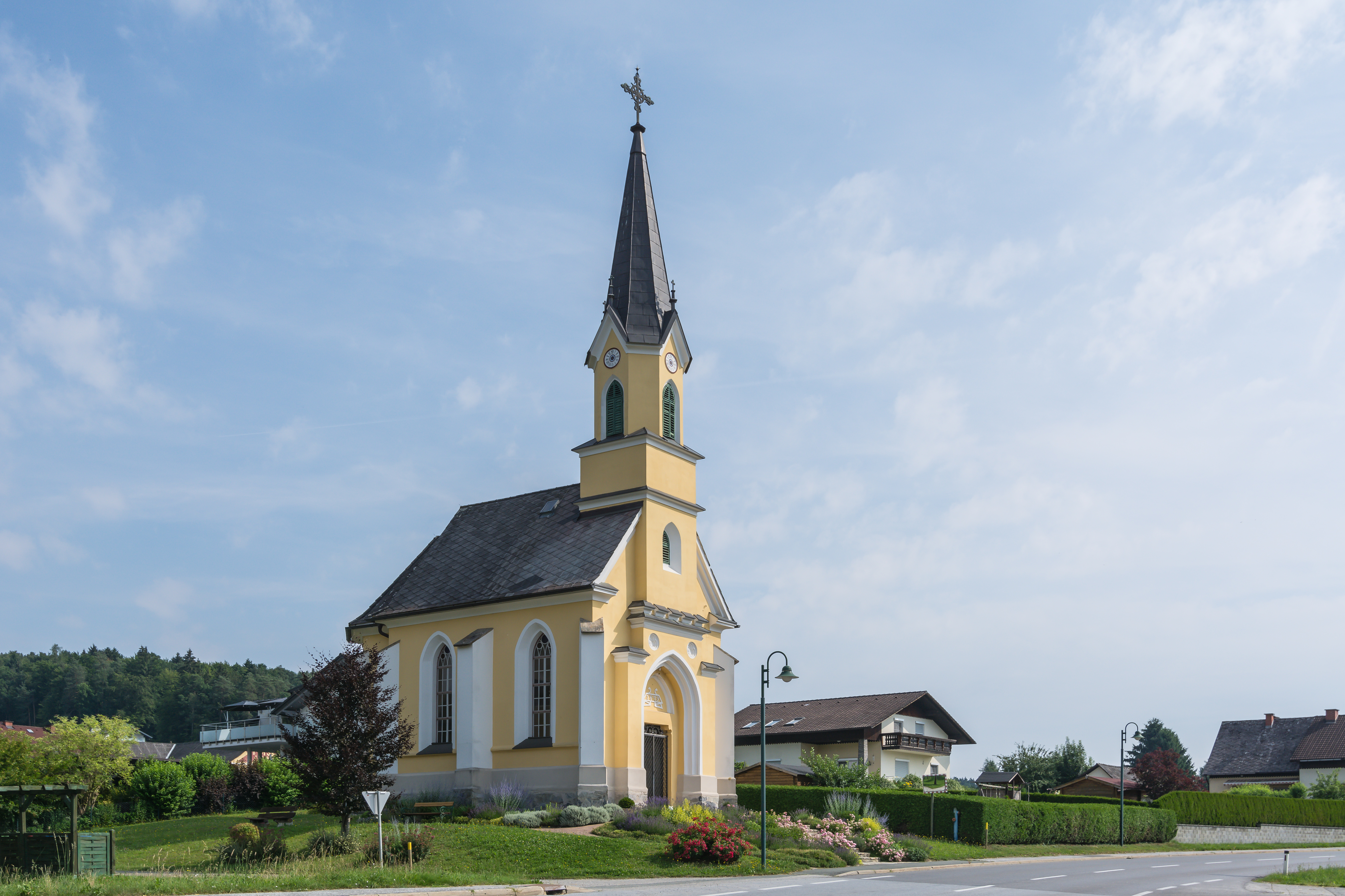 The chapel of village Breitenhilm in community Vasoldsberg near Graz is dated with 1879.